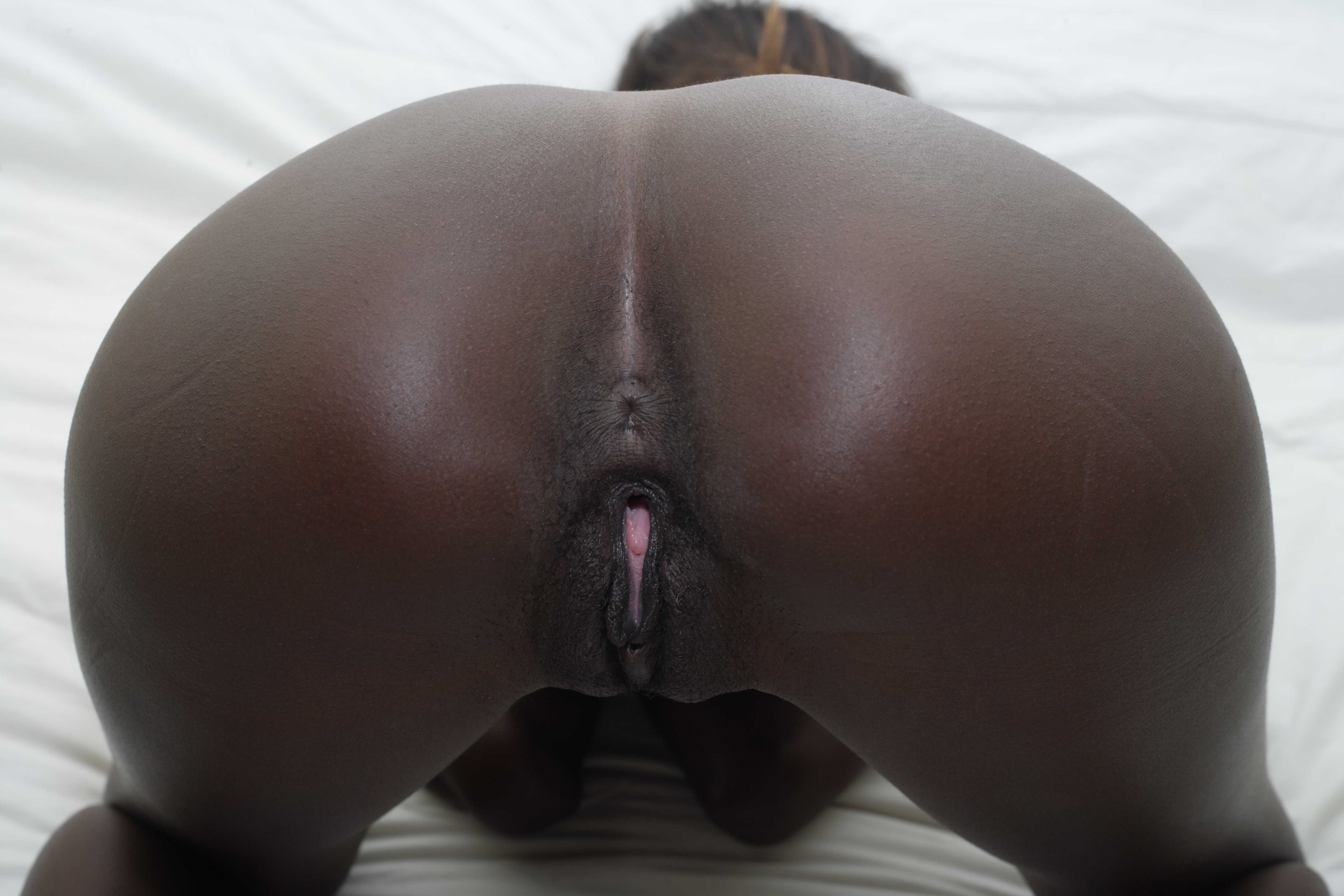 Shaven genitalia (clitoris, labia, vagina) and anus of a young black woman. Work by Dutch artist Peter Klashorst.